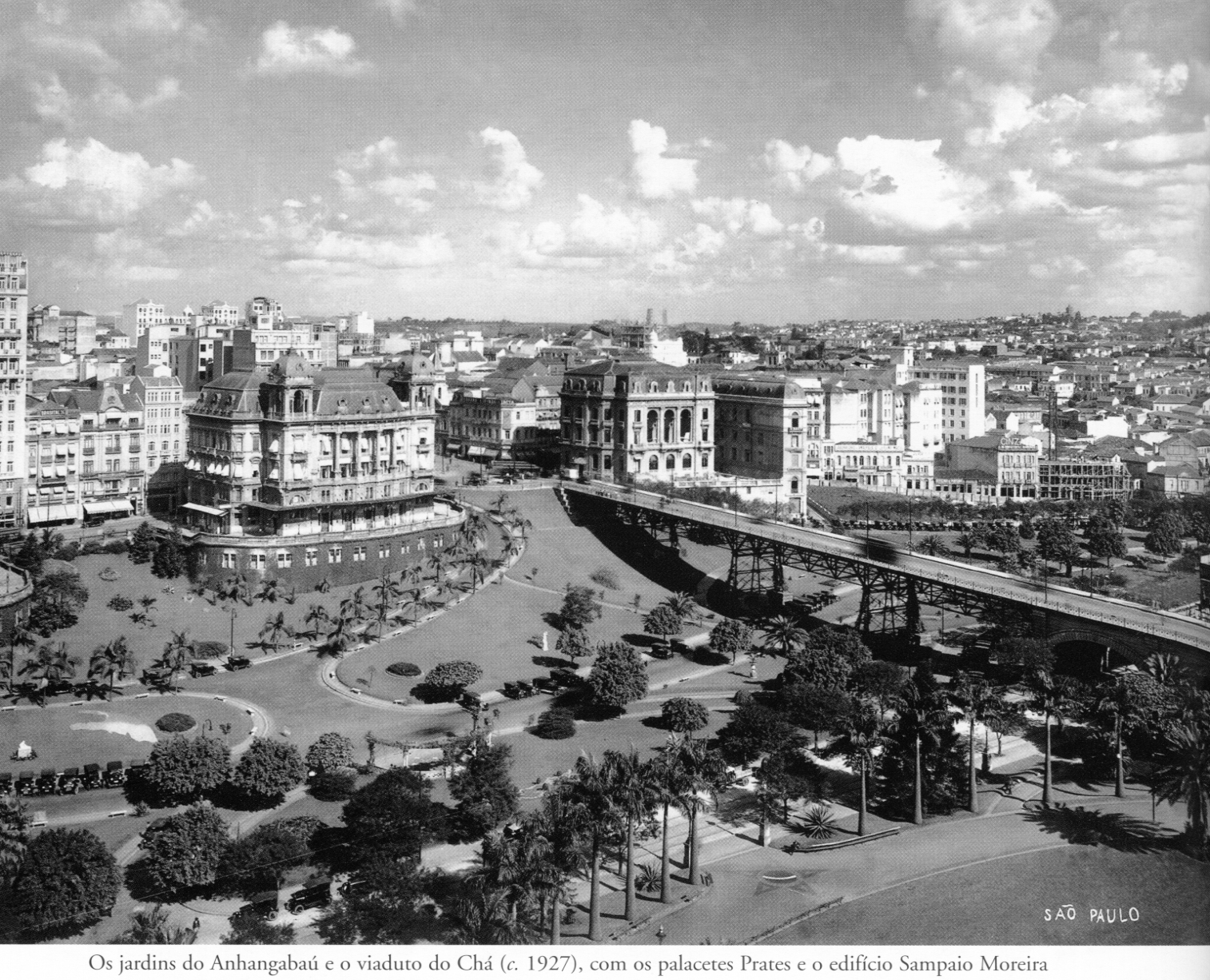 Palacetes Prates e Vale do Anhangabaú